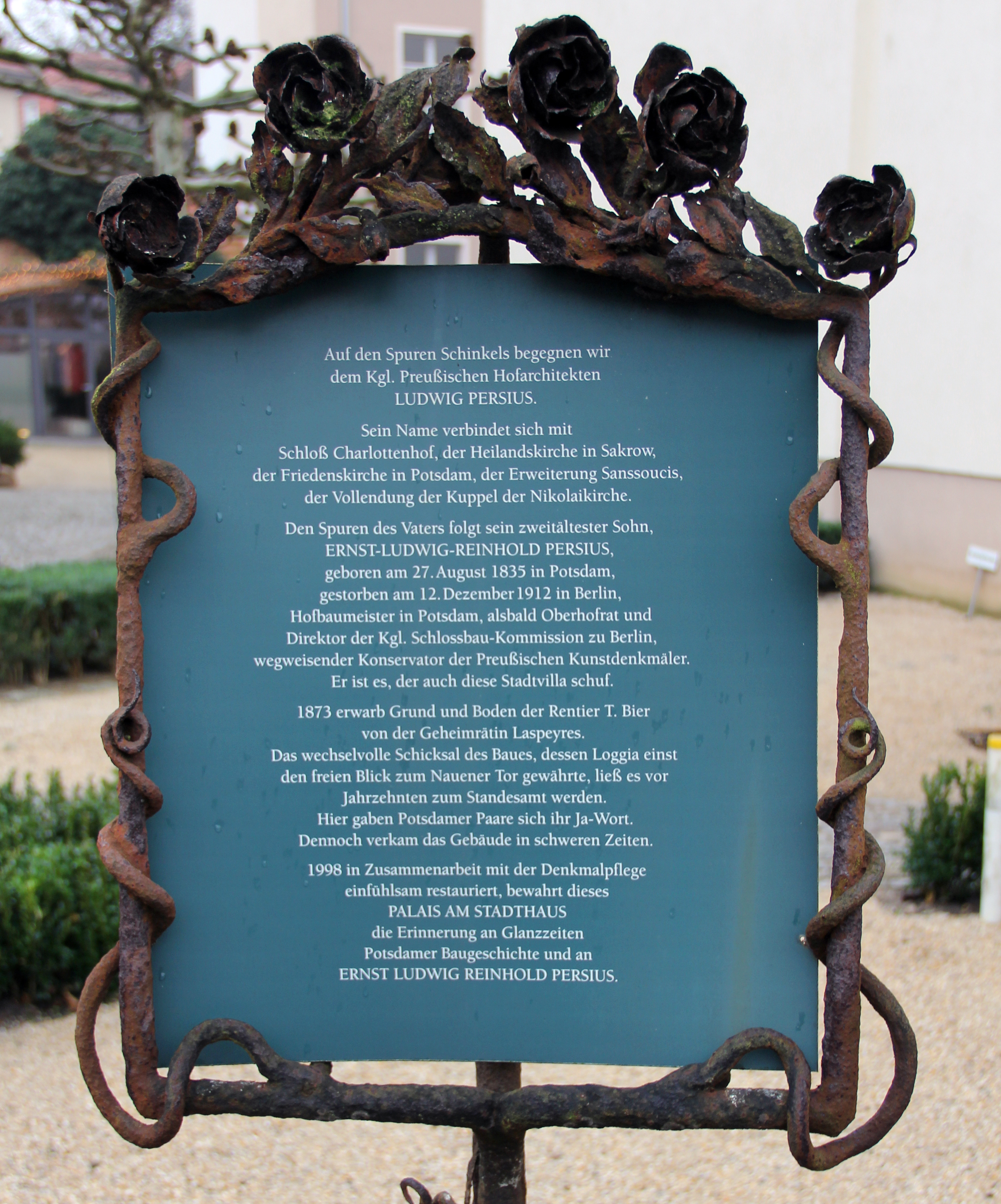 Memorial plaque, Reinhold Persius, Friedrich-Ebert-Straße 37, Potsdam, Germany